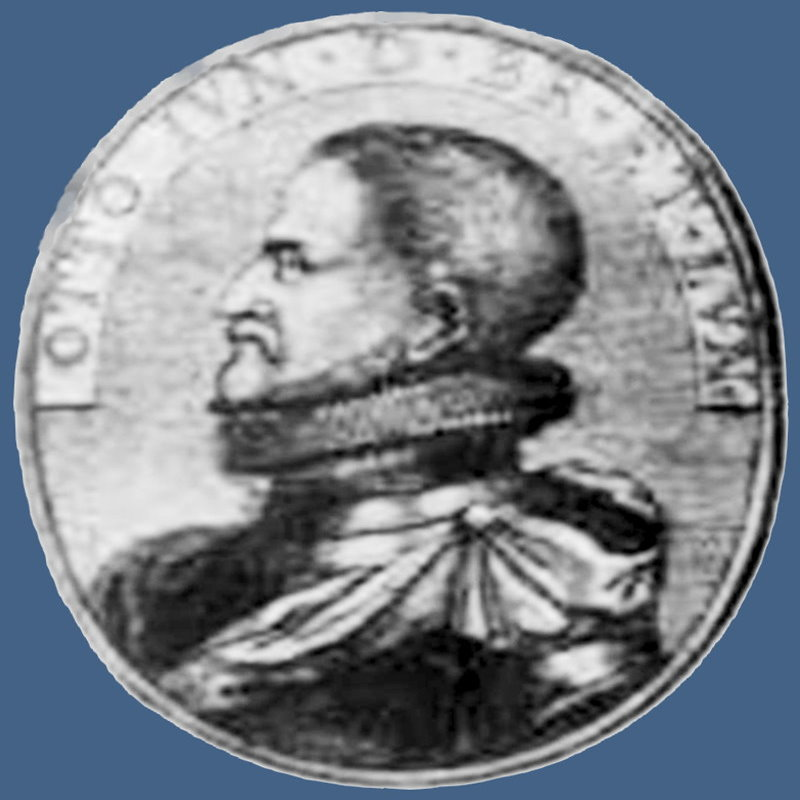 Herzog Otto I. von Braunschweig, Lüneburg und Harburg